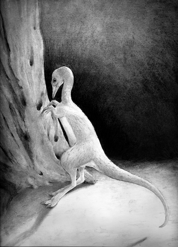 Albertonykus borealis ( Dinosauria - Theropoda - Coelurosauria - Alvarezsauridae ) from the late Cretaceous ( Maastrichtian aged ) Horseshoe Canyon Formation of Dry Island Buffalo Jump, Alberta, Canada. Original pencil, graphite, and charcoal on paper by Nick Longrich. Additional digital editing by Nick Longrich